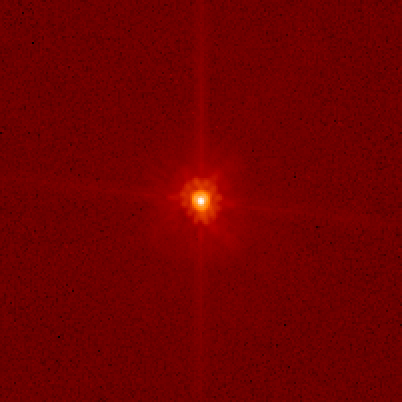 Photograph of Makemake taken by the Hubble Space Telescope